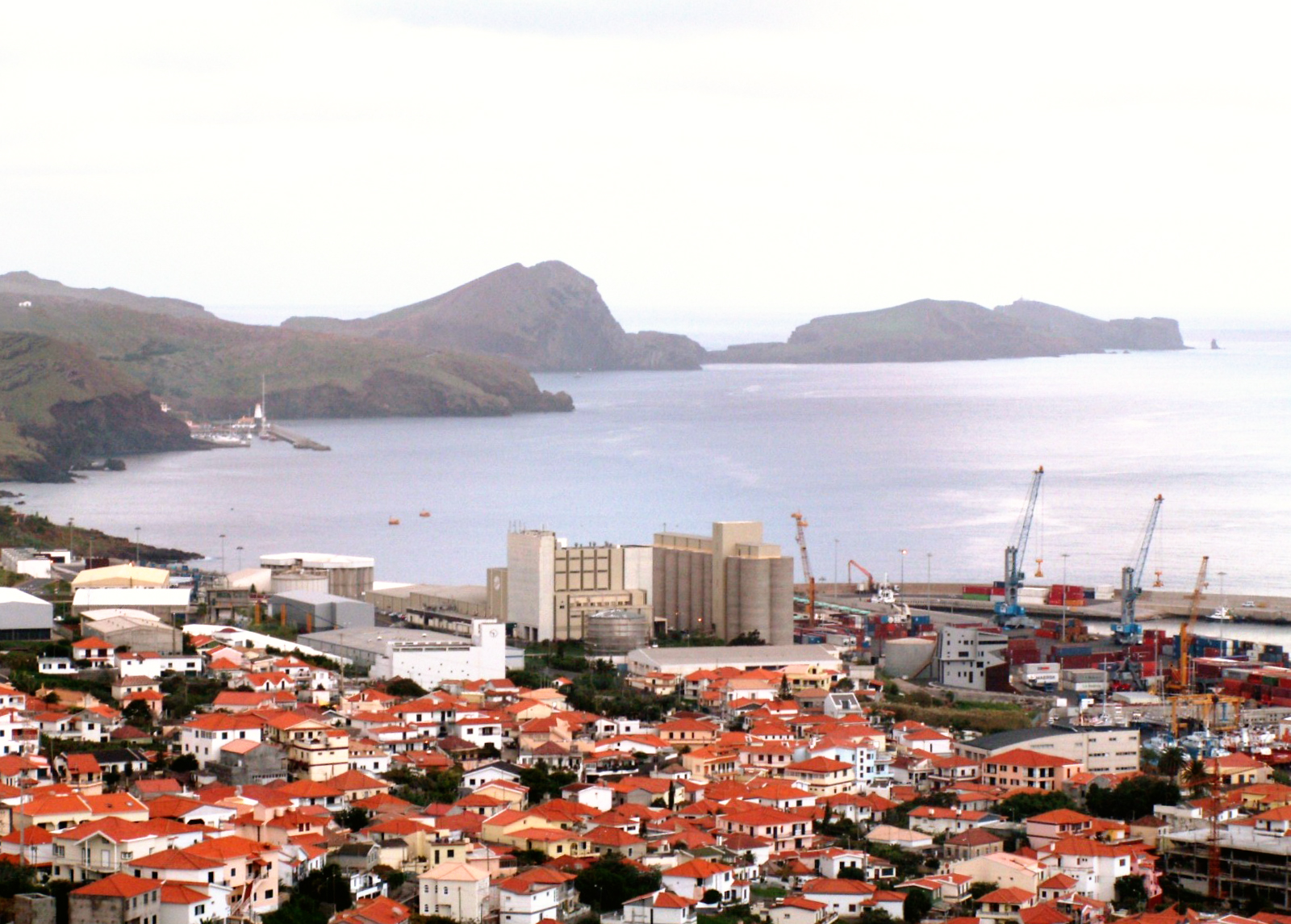 years ago